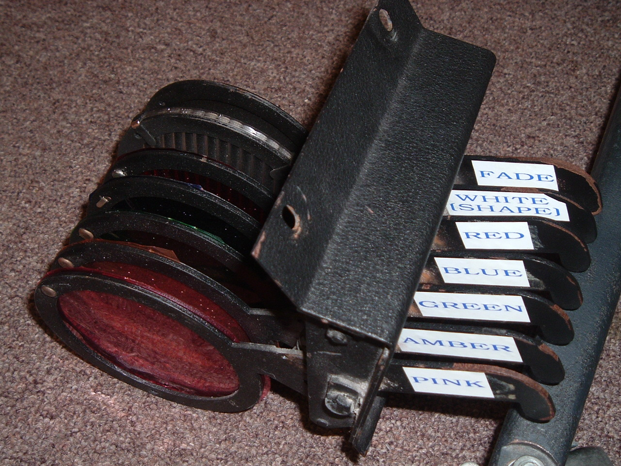 Photo of a boomerang from a Followspot.